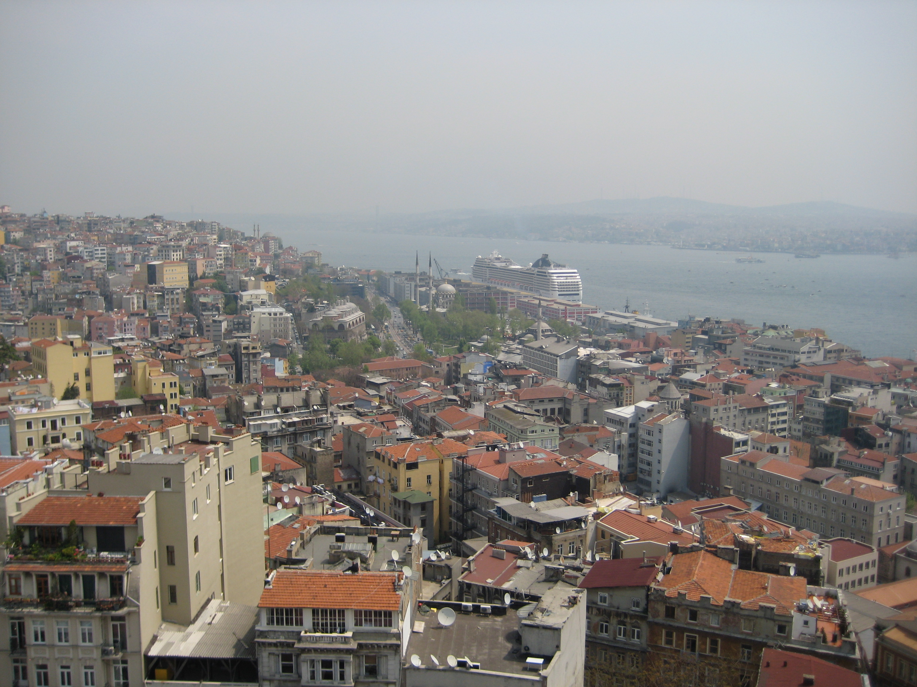 View from Cihangir, Istanbul